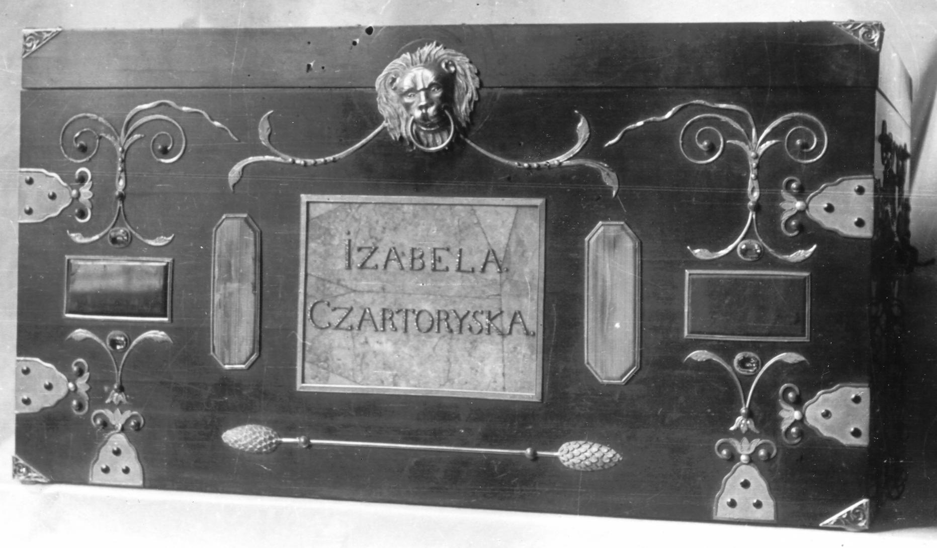 Royal Casket (ebony, gold, precious stones, semiprecious stones).